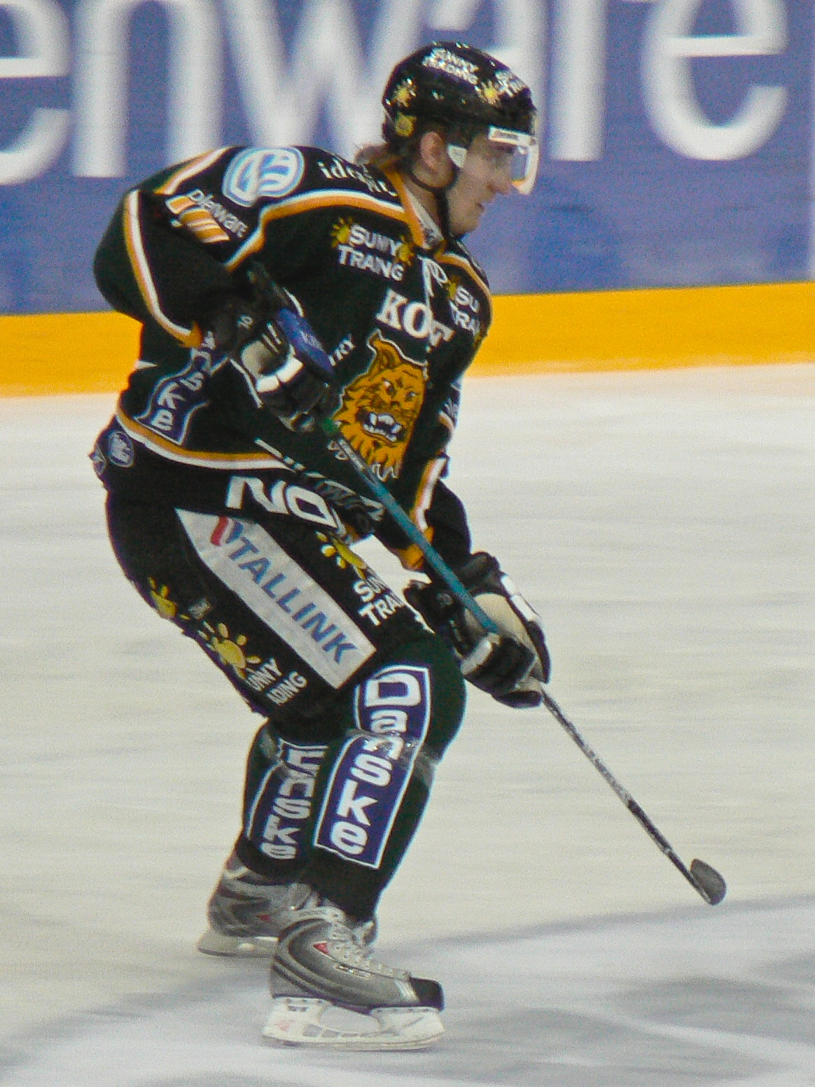 Finnish ice hockey winger Sami Sandell playing for Ilves Tampere in October, 2007.